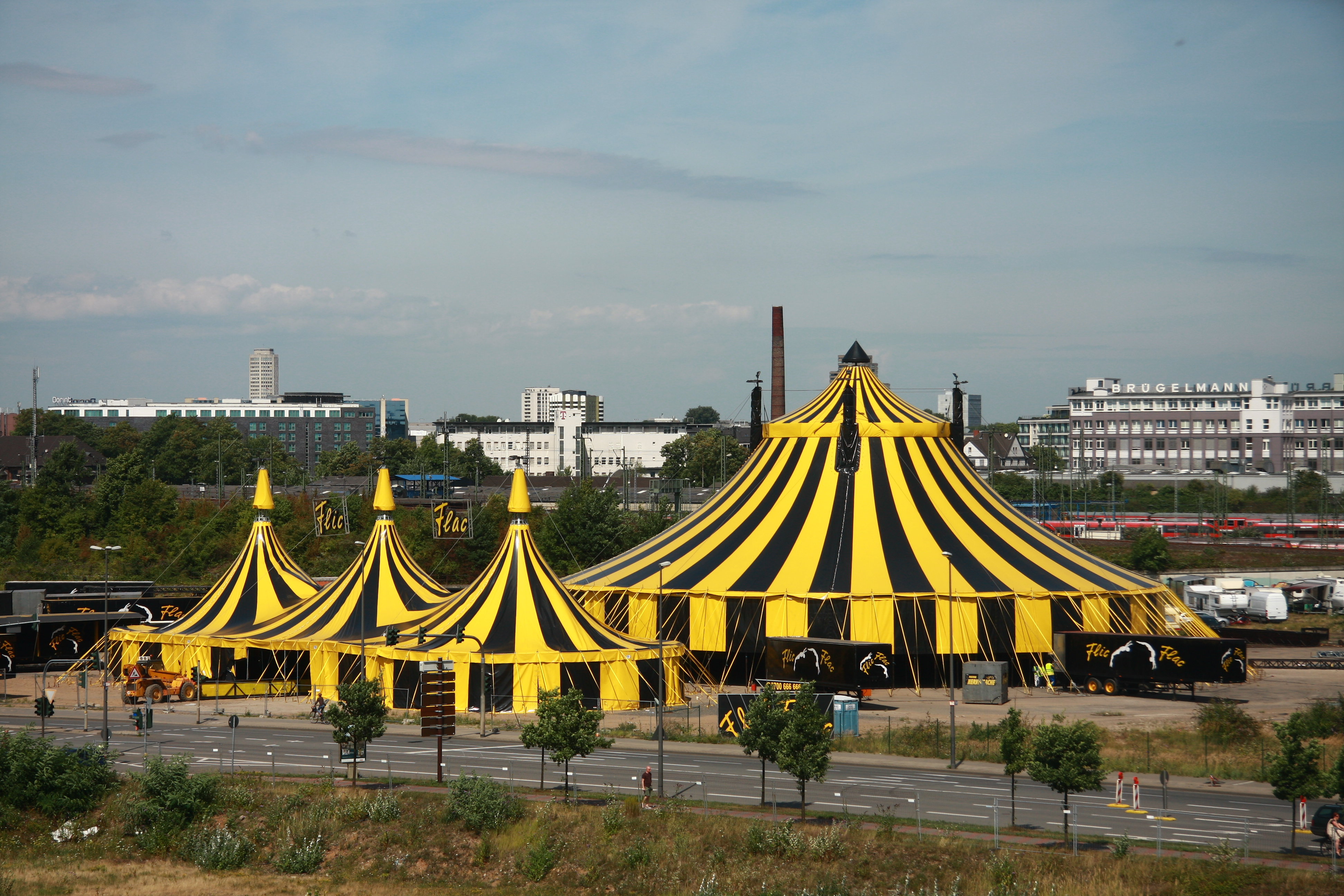 Circus Flic Flac in Köln-Kalk